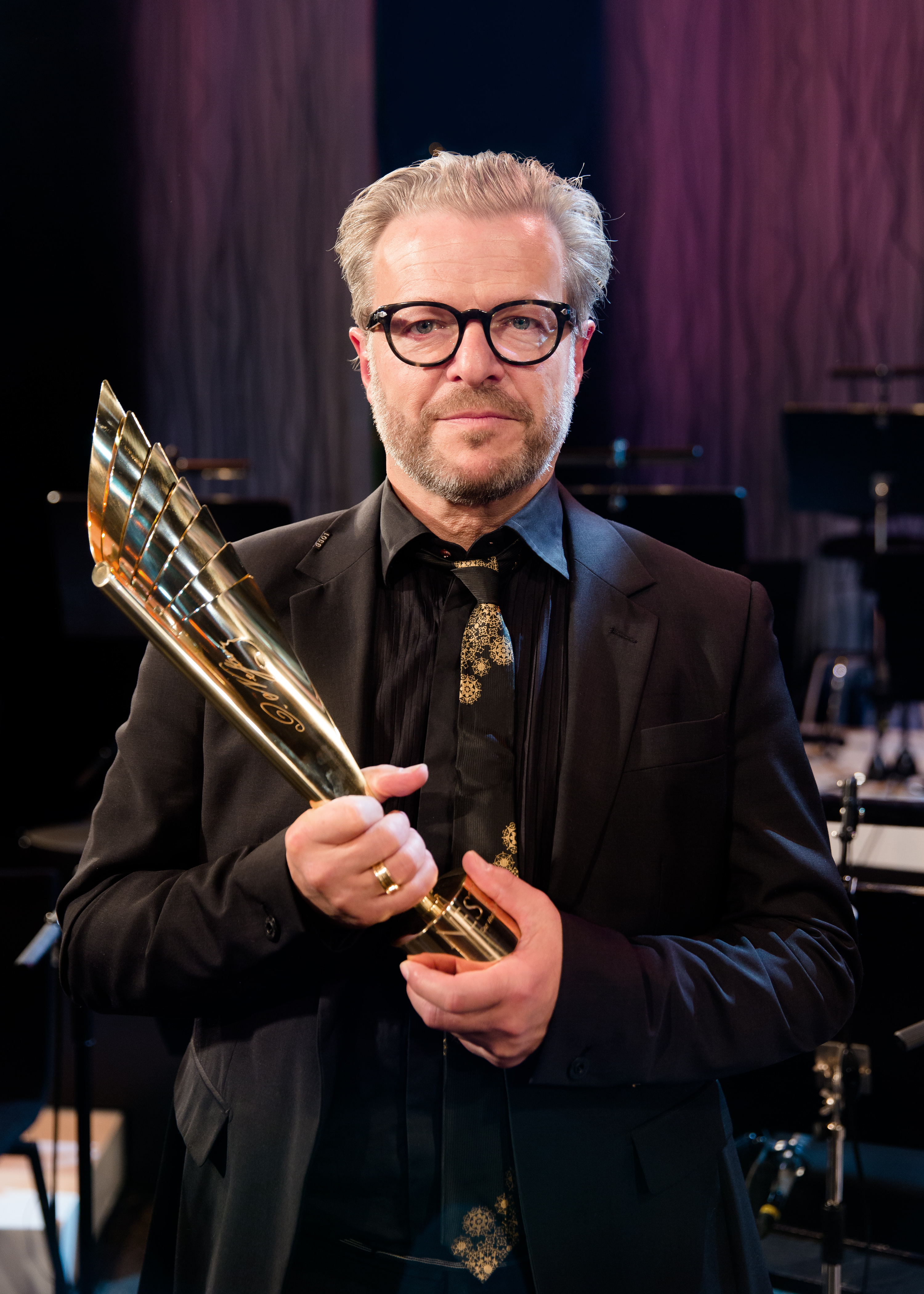 Roland Koch at the Nestroy Theatre Awards 2015 (Ronacher, Vienna, Austria).